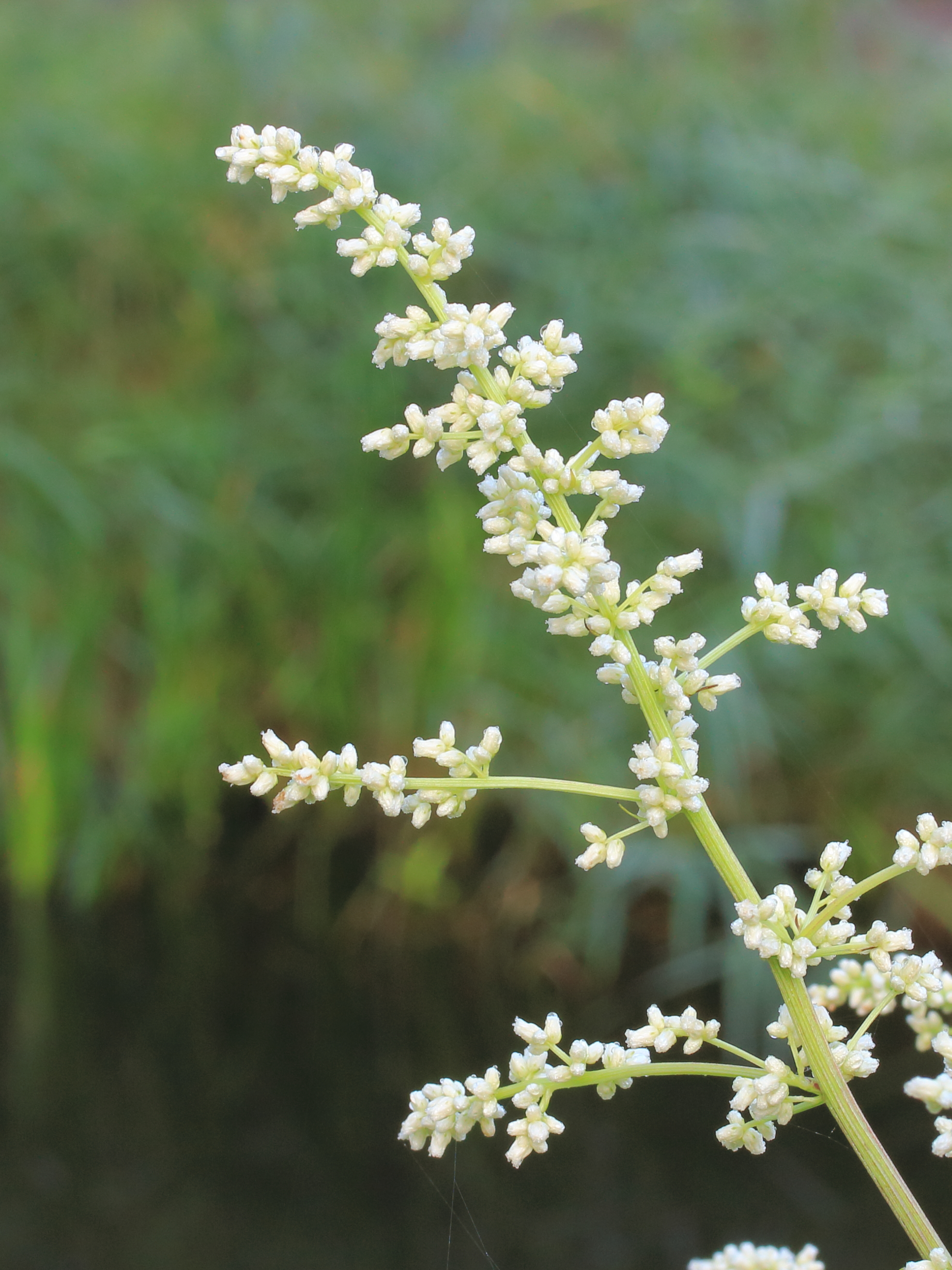 The small flowers of Artemisia lactiflora after rain.